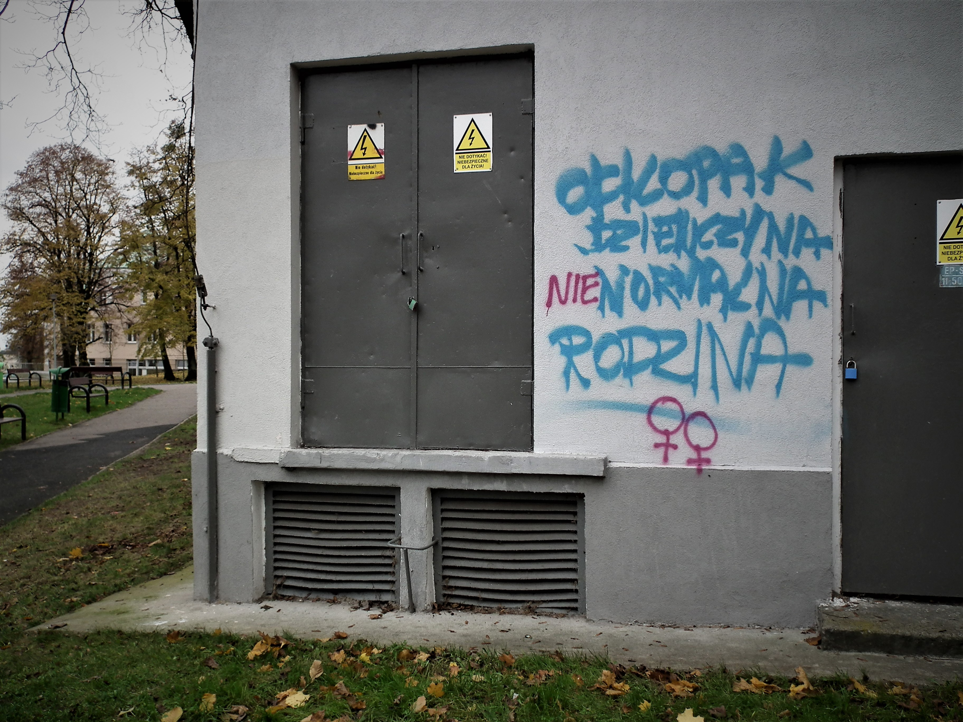 Graffiti on a building in Poznan: "Boy–girl is (not) a normal family"